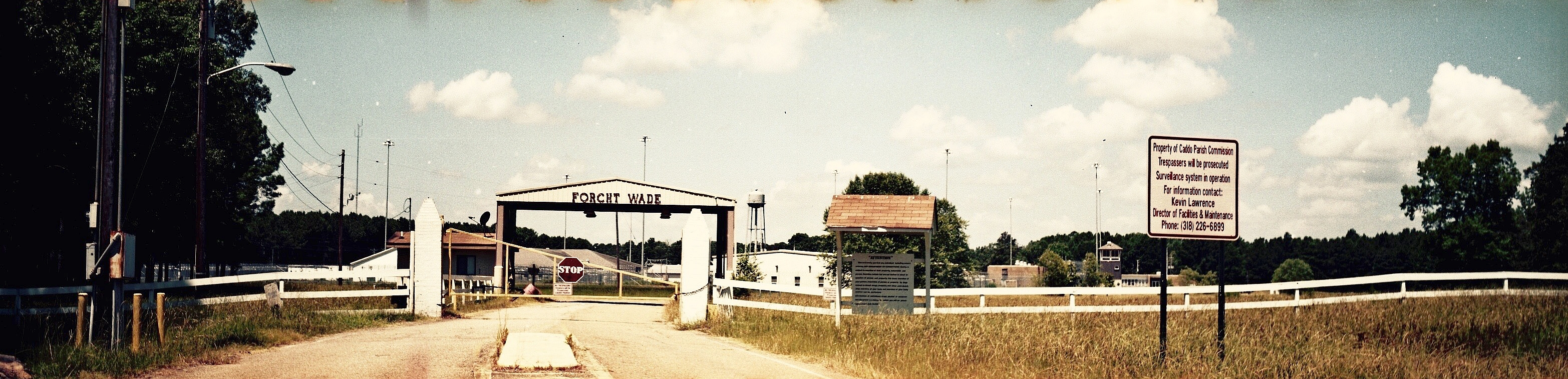 Forcht-Wade Correctional Center, Keithville, Louisiana.